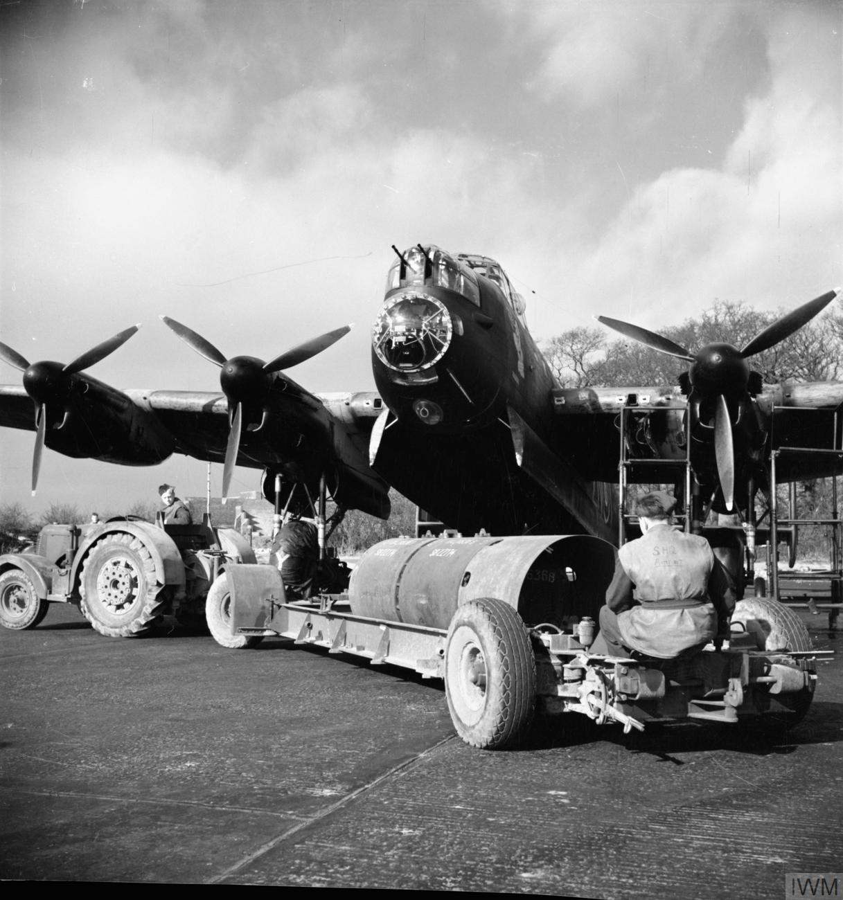 IWM caption : An 8,000-lb HC bomb ('super cookie') is brought by tractor to a waiting Avro Lancaster of No. 106 Squadron RAF in its dispersal at Syerston, Nottinghamshire. The target on this particular night was Stuttgart, Germany.